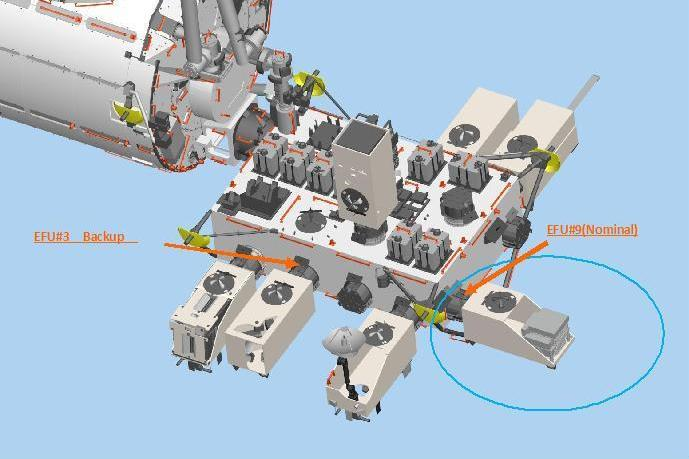 CALET instrument mounting at Port #9 of JEM-EF (Kibo module) of the ISS CALorimetric Electron Telescope (CALET) is an astrophysics mission that searches for signatures of dark matter and provides the highest energy direct measurements of the cosmic ray electron spectrum in order to observe discrete sources of high energy particle acceleration in our local region of the Galaxy.